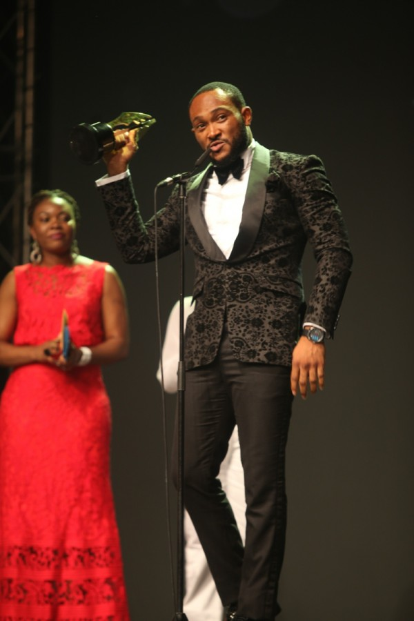 Blossom Chukwujekwu receiving the Best Supporting Actor Award at the Africa Magic Viewers Choice Awards 2015